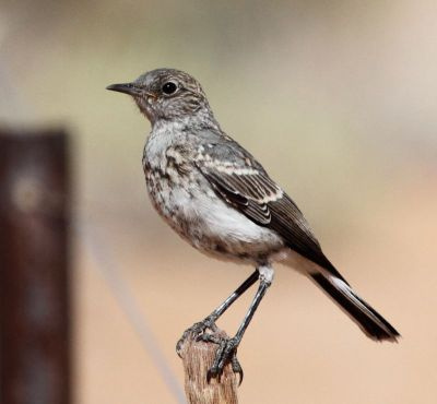 A juvenile Karoo Chat North-west of Aggenys, Northern Cape, South Africa.